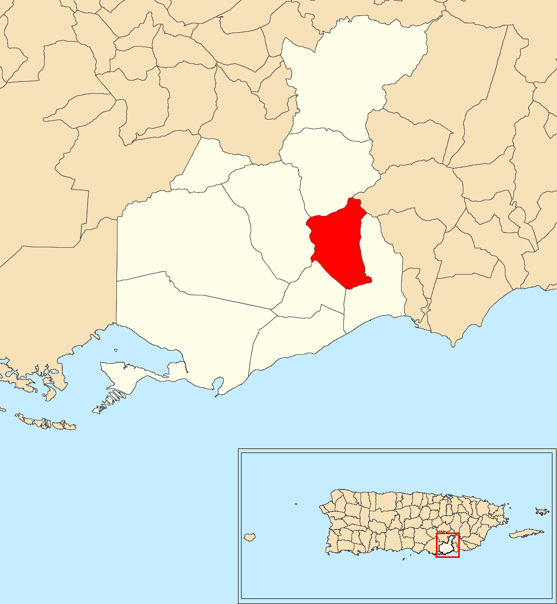 Caimital, Guayama, Puerto Rico locator map